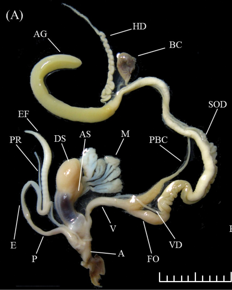 Genital morphology of Aegista diversifamilia: Scale bar = 1 cm. A: atrium; AG: albumen gland; AS: accessory-sac of auxiliary copulatory organ; BC: bursa copulatory; DS: dart-sac of auxiliary copulatory organ; E: epiphallus; EF: epiphallial flagellum; FO: free oviduct; HD: hermaphroditic duct; M: gland of the auxiliary copulatory organ; P: penis; PBC: pedunculus of bursa copulatory; PR: penis retractor; SOD: spermoviduct; V: vagina; VD: vas deferens.